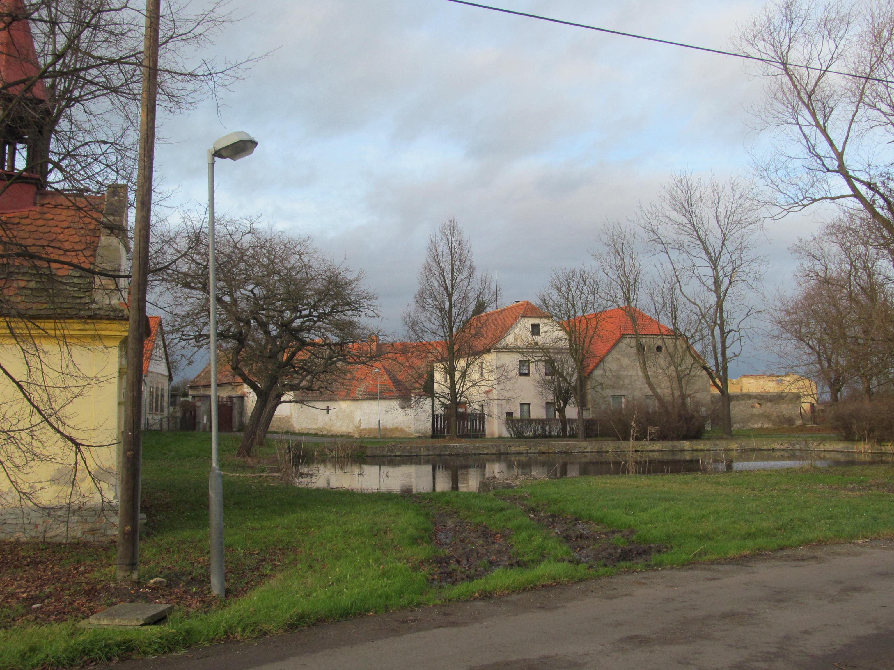 Village square in Drahomyšl